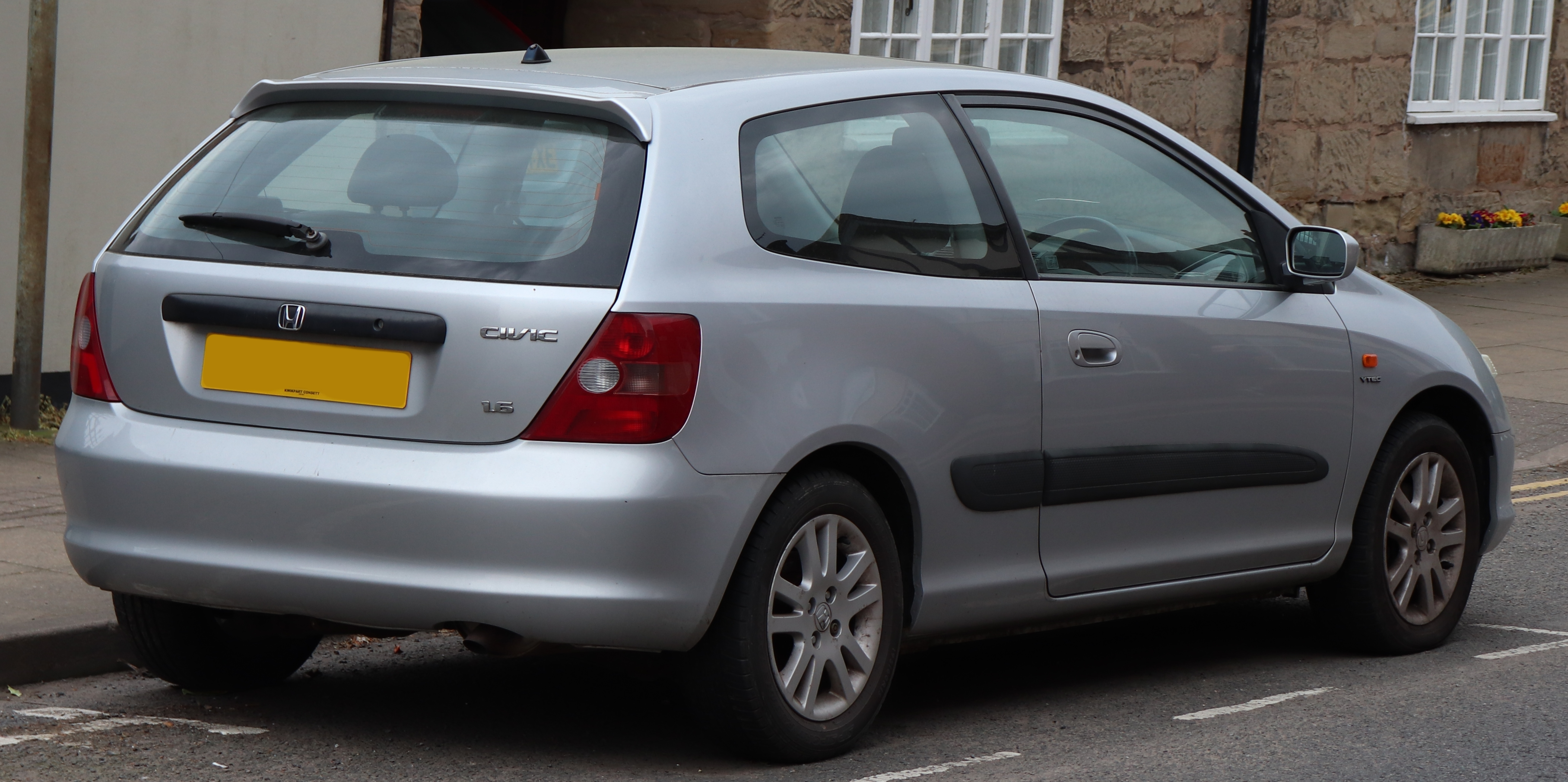 2002 Honda Civic VTEC SE Sport 1.6 Rear Taken in Warwick